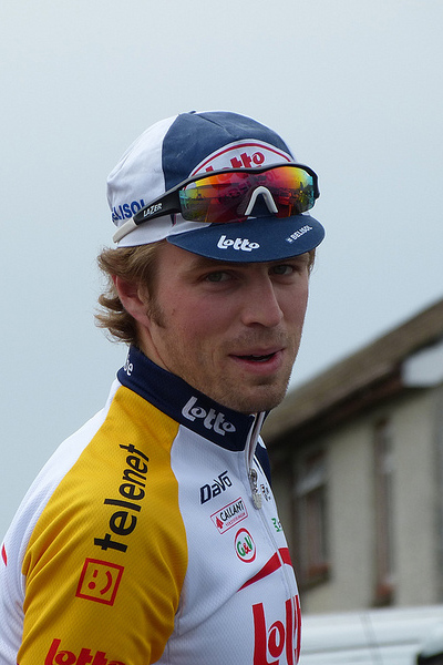 British National Time Trial Championships 2013